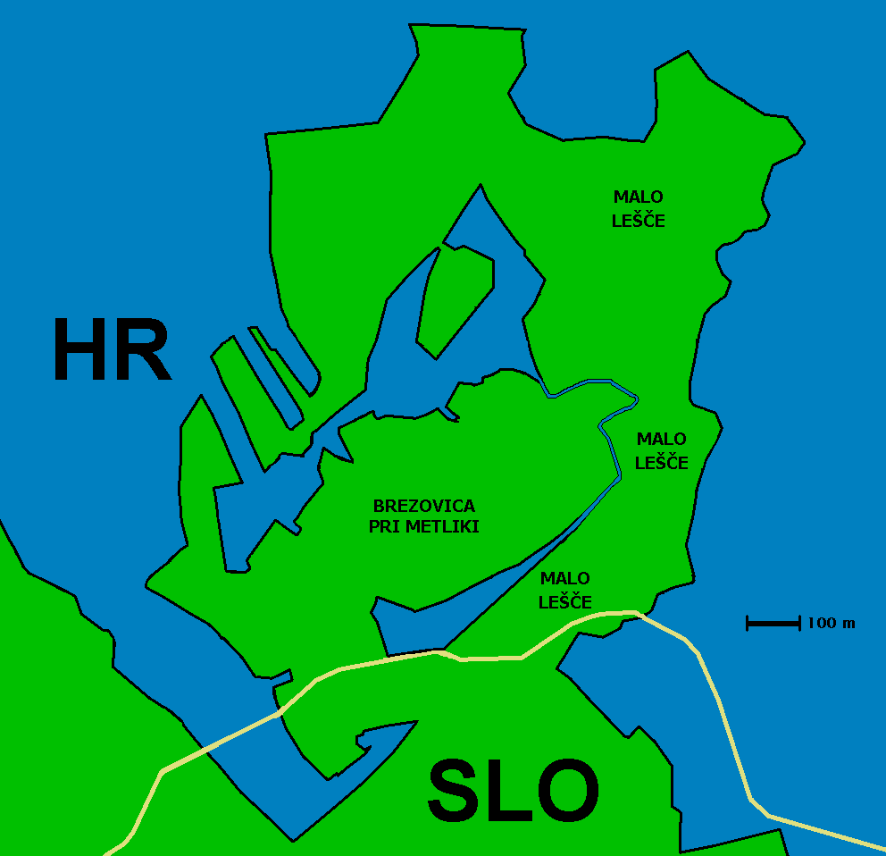 Interesting part of the border between Slovenia and Croatia in Zumberak region